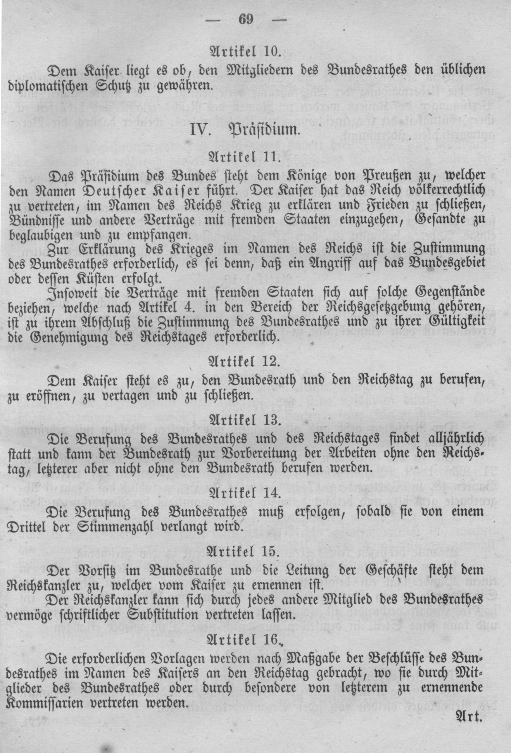 Scan from the Imperial Law Gazette of Germany, 1871